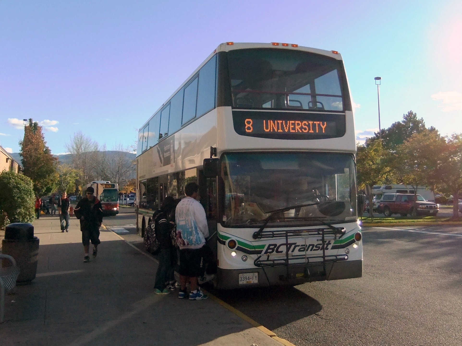 Kelowna Regional Transit System bus at Orchard Park Exchange, Kelowna, BC, Canada.